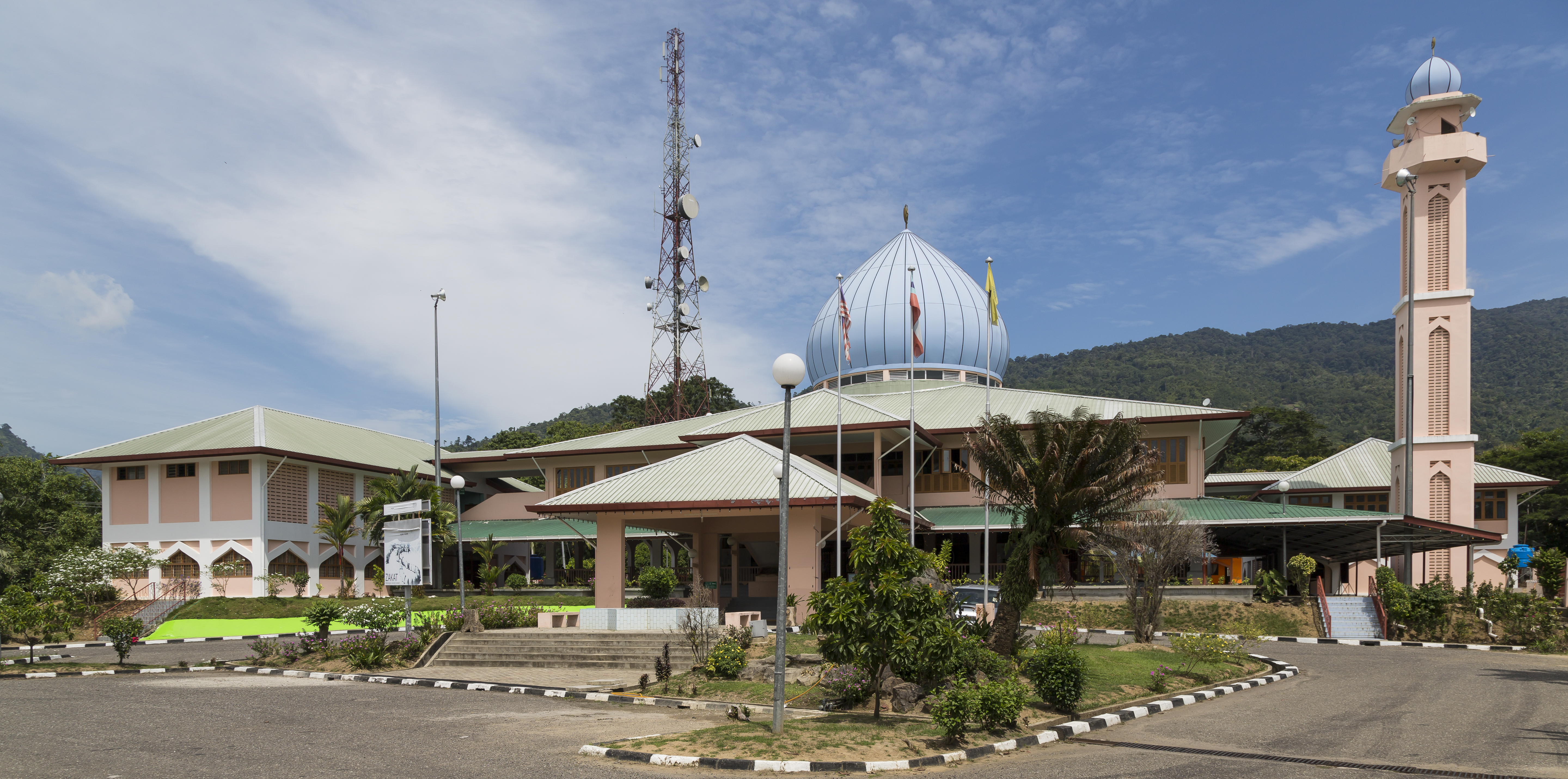 Tenom, Sabah, Malaysia: Ar Rahman Mosque